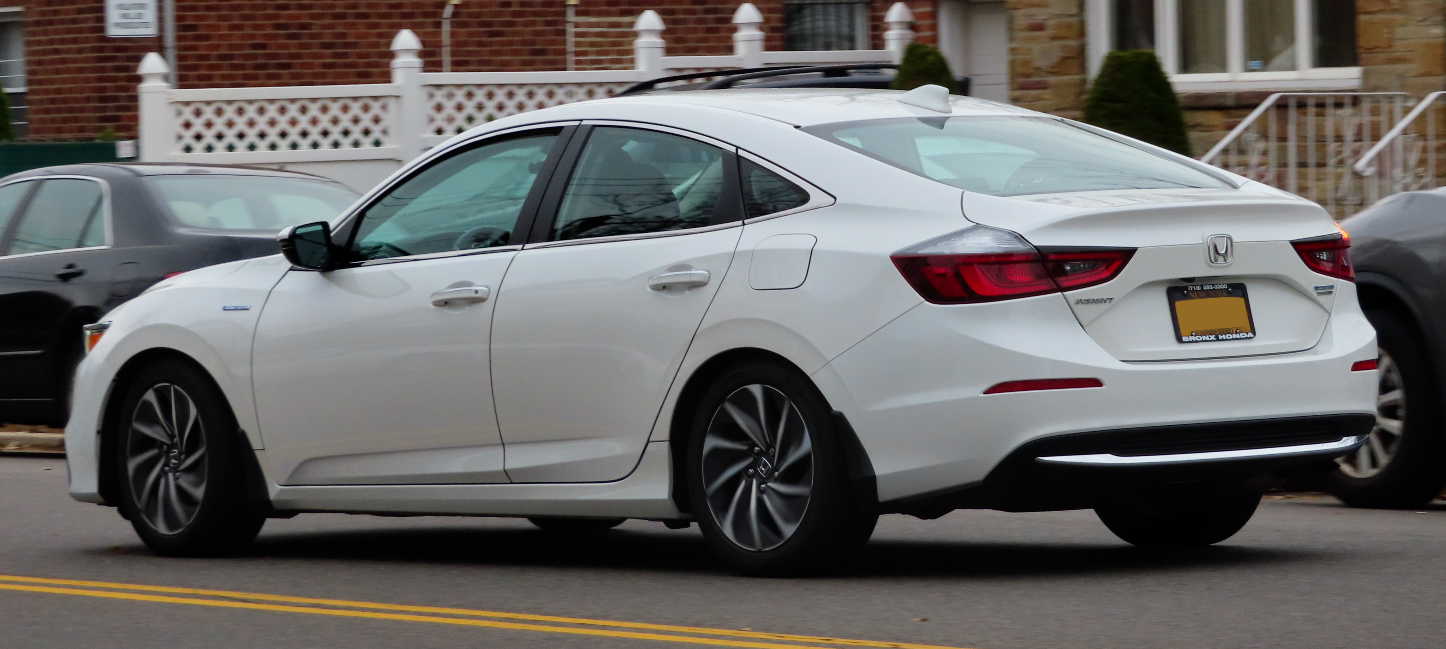 A 2019 Honda Insight Touring Hybrid hotographed in Fresh Meadows, Queens, New York, USA